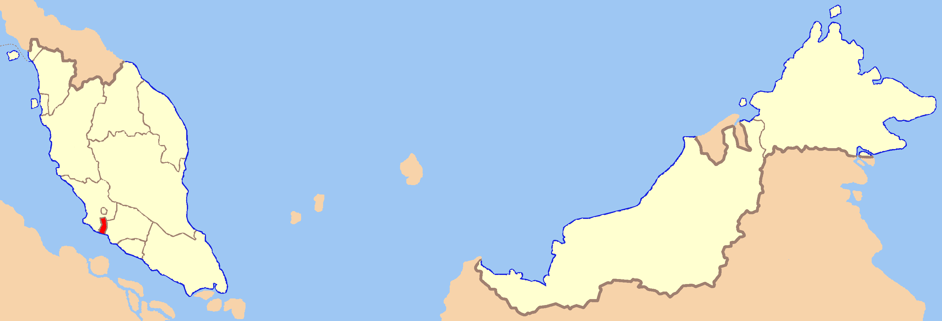 Map of Malaysia with Putrajaya FT highlighted